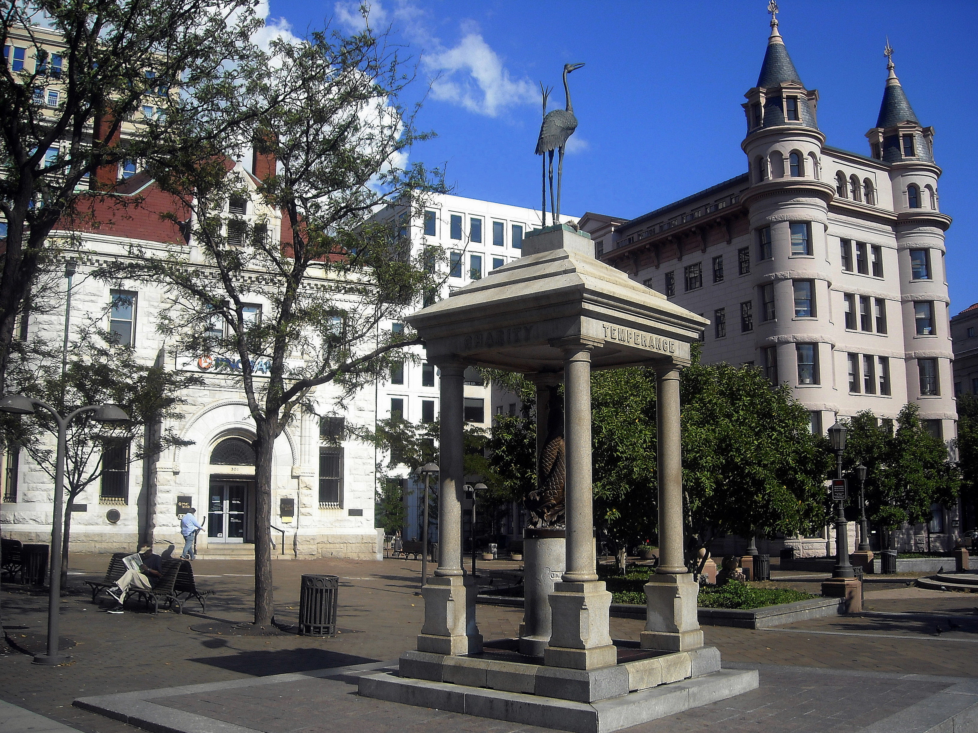 The Temperance Fountain located at 7th Street and Indiana Avenue, NW in the Penn Quarter neighborhood of Washington, D.C. It was designed by Henry D. Cogswell in 1884 and is listed on the National Register of Historic Places. The buildings seen in the background are the Washington National Bank, Washington Branch (left; now a PNC Bank branch) and Central National Bank (right; now the National Council of Negro Women headquarters). Both buildings are listed on the National Register of Historic Places.